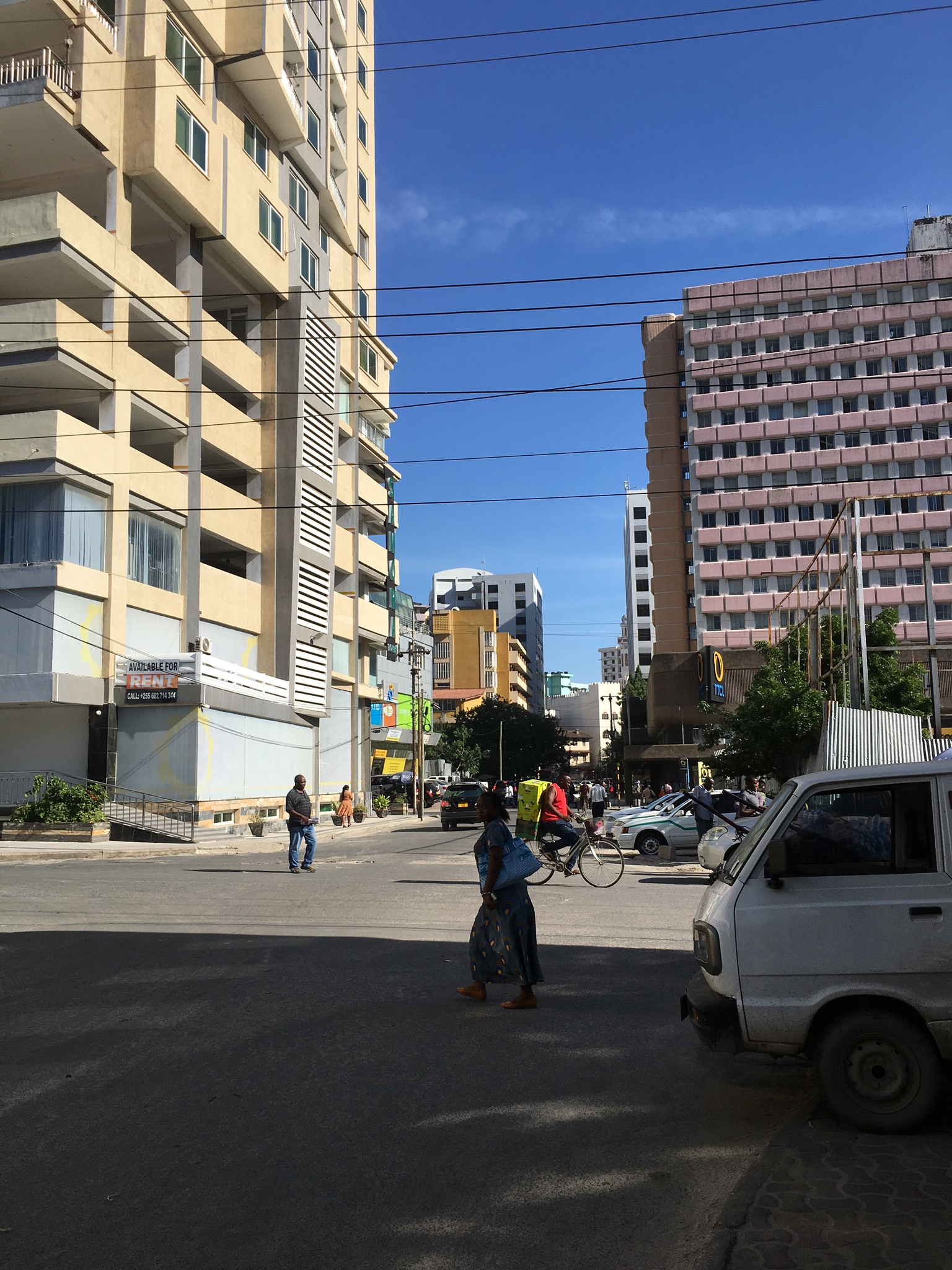 Gerezani